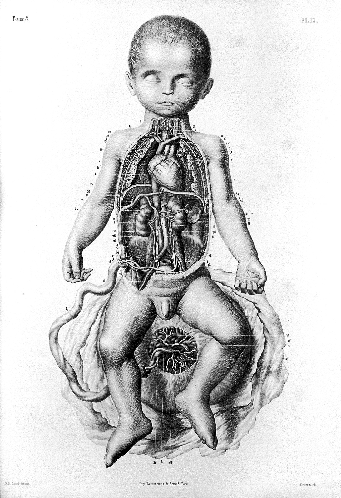 Foetal circulation. General Collections Keywords: Jean Baptiste Marc Bourgery; Nicolas Henri Jacob